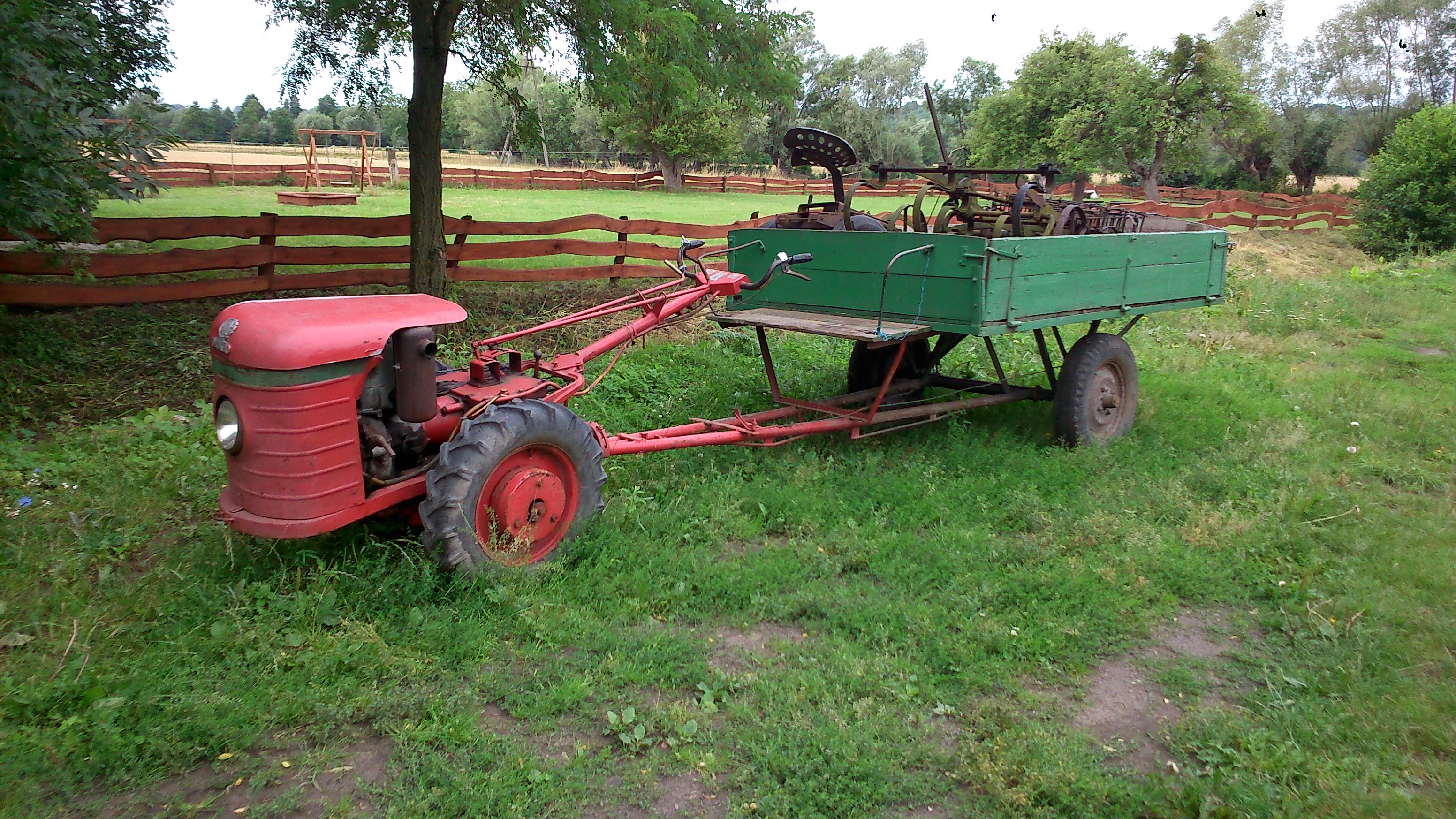 Polish two-wheel tractor Dzik-2.